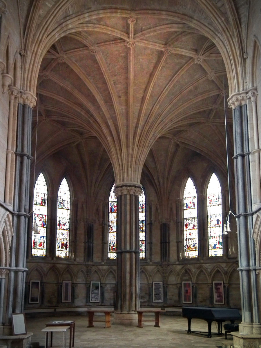 Interior of the Chapter house, Lincoln Cathedral, Lincoln, England